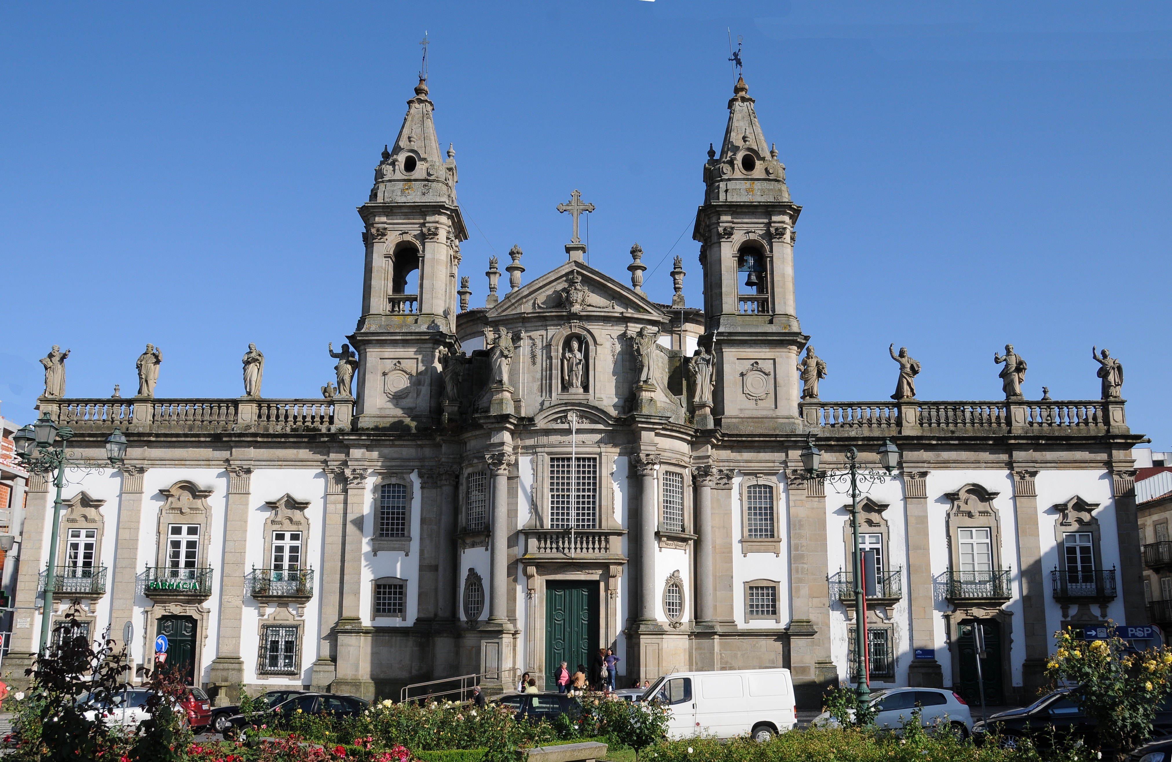 Hospital Church, in Braga, Portugal.